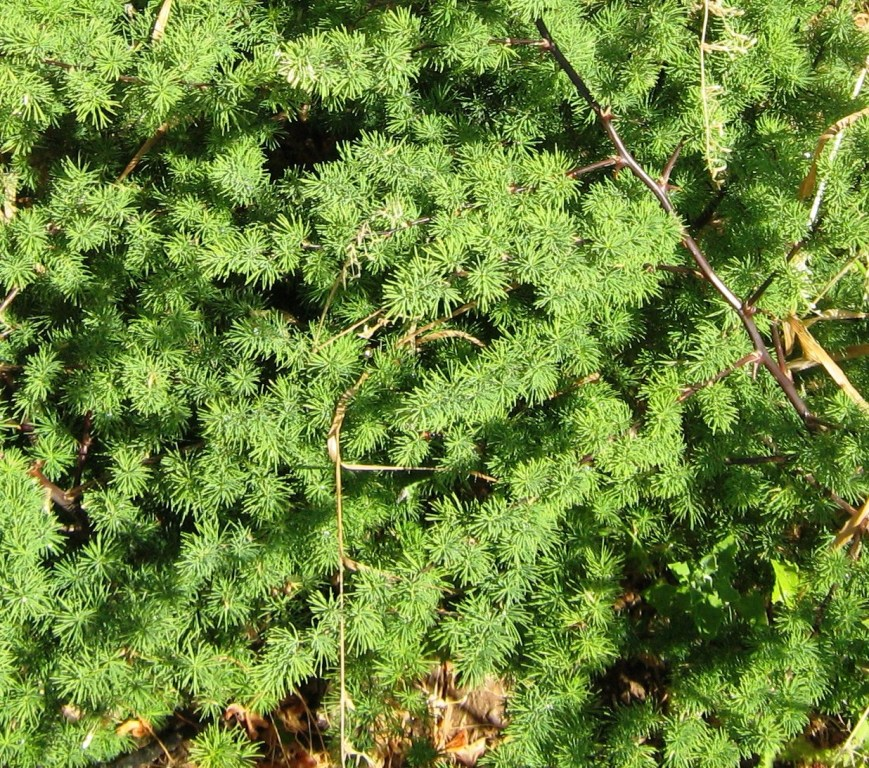 Asparagus rubicundus - Cape Town